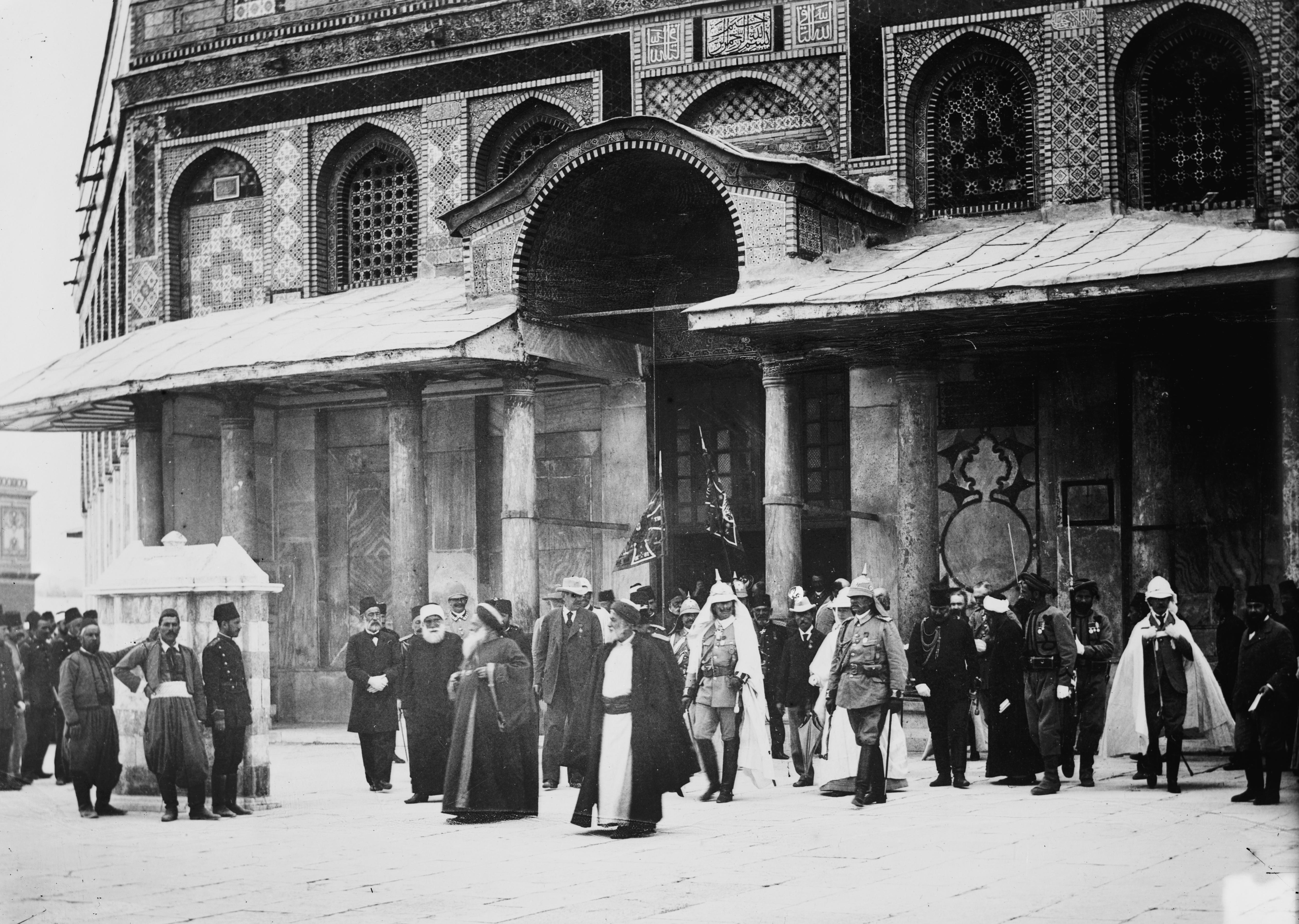 State visit to Jerusalem of Wilhelm II of Germany in 1898. Emperor and Empress.